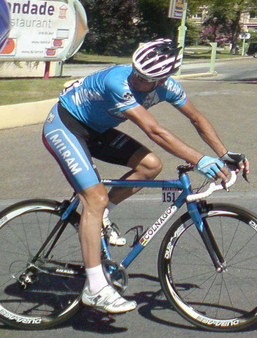 Erik Zabel